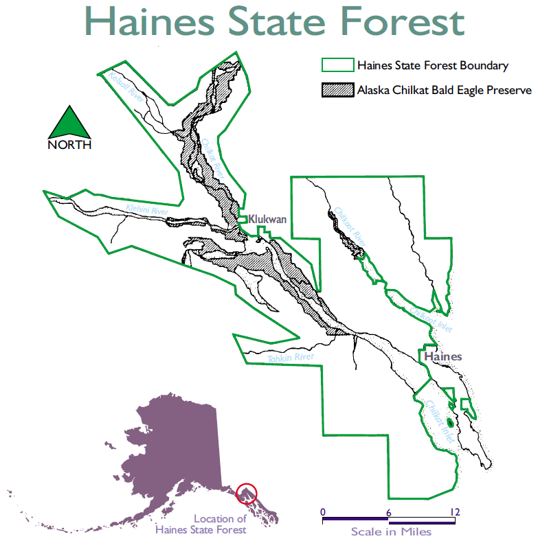 Map of Haines State Forest, Alaska